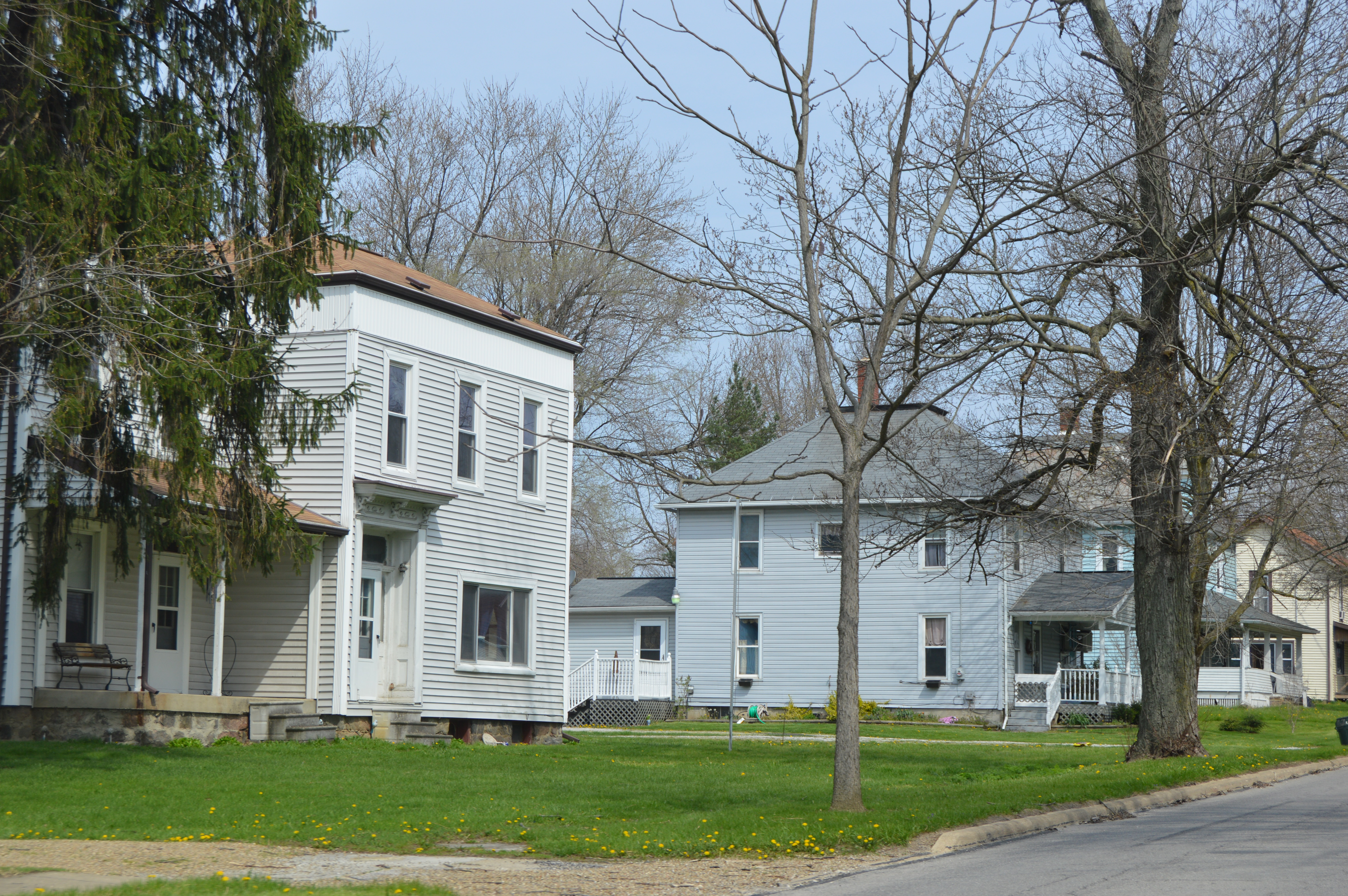 Houses on the western side of S. Main Street (U.S. Route 250) in Savannah, Ohio, United States.